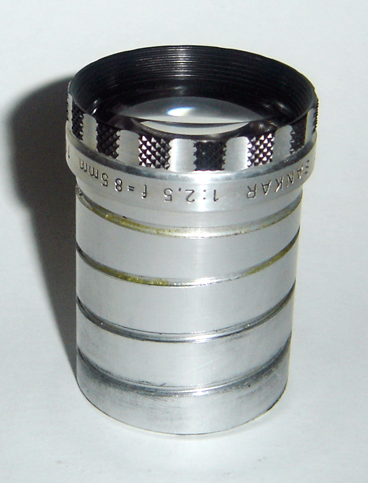 This is a projection objective "Sankar" produced for German optical company "Ed. Liesegang OHG", Duesseldorf (Germany) for their slide projectors. The aperture is given as 1:2.5, focal length 85mm, coated lenses. This type of all-metal projection objectives was commonly used in the Liesegang slide projectors of the 1950 and 1960s. Diameter of the tubus: 37mm. In contrast to the more frequently used Patrinast projection objective, the Sankar is a "faster" model with a bigger aperture (1:2.5 vs. 1:2.8). (full view)